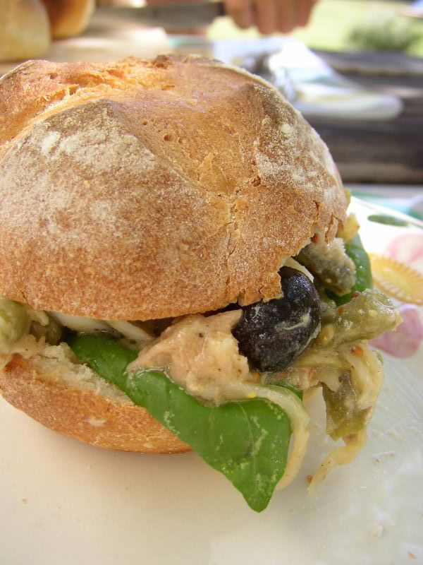 The Pan-bagnat (pahn bahn-YAH) is a sandwich that is a speciality of the region of Nice, France. The sandwich is composed of a circle formed white bread around the classic Salade Niçoise, a salad composed mainly of raw vegetables, hard boiled eggs, anchovies and/or tuna, and olive oil. The name of the sandwich comes from the local Provençal language dialect of Niçard, in which Pan-bagnat means "wet bread". It is often misspelled "pain bagnat" which, while correct in French, is not the spelling used in Niçard. The Pan-bagnat is a popular lunchtime dish in the region around Nice where it is sold in most bakeries and on most markets. The Pan-bagnat and the Salade Niçoise are strongly linked to the city of Nice, where they have been over time developed out of locally available ingredients.